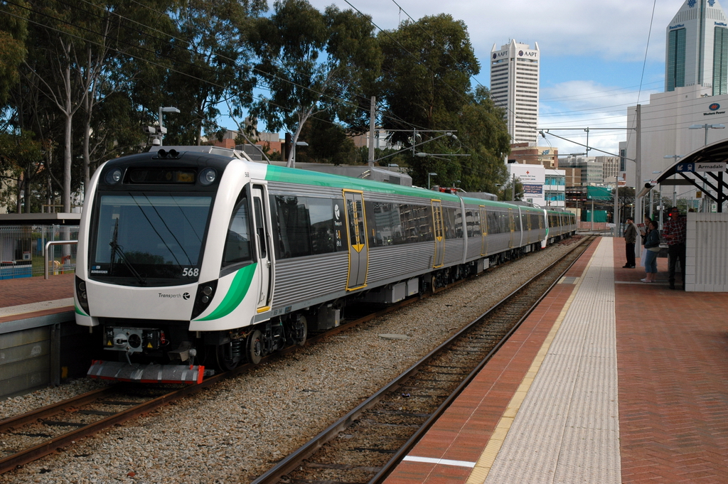 Transperth B-series train at McIver Station. Perth, Western Australia. Set 466 is at the lead hauling Set 468 which had just been delivered.